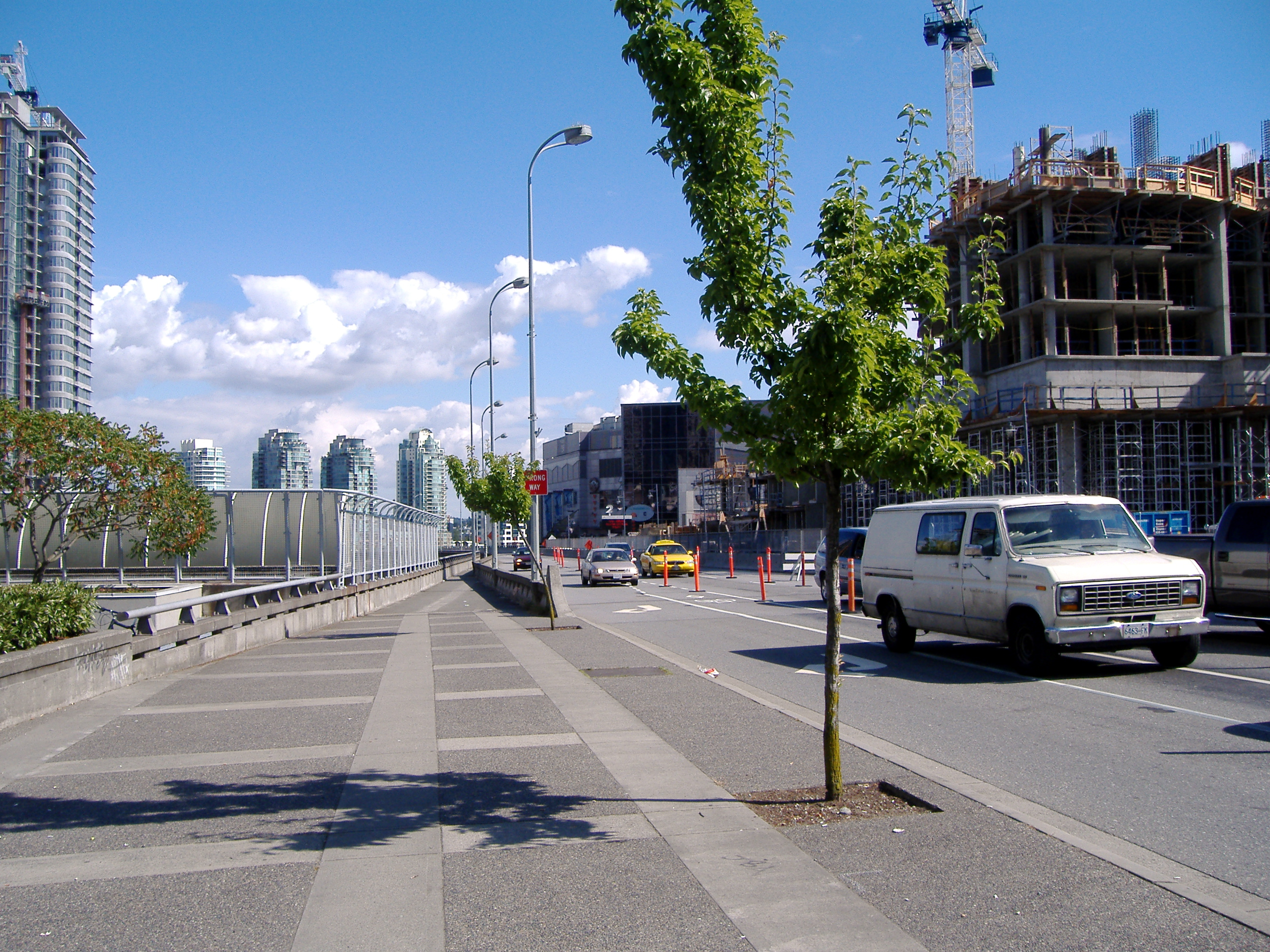 Facing eastward, the exit point of the Dunsmuir Street Viaduct. Photo taken in 2006 before installation of separated bicycle lane.